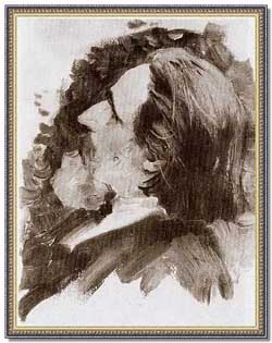 Portrait of V. A. Beklemishev (1861-1920), Russian sculptor